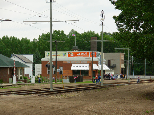 A view of 1920 Street at Fort Edmonton Park